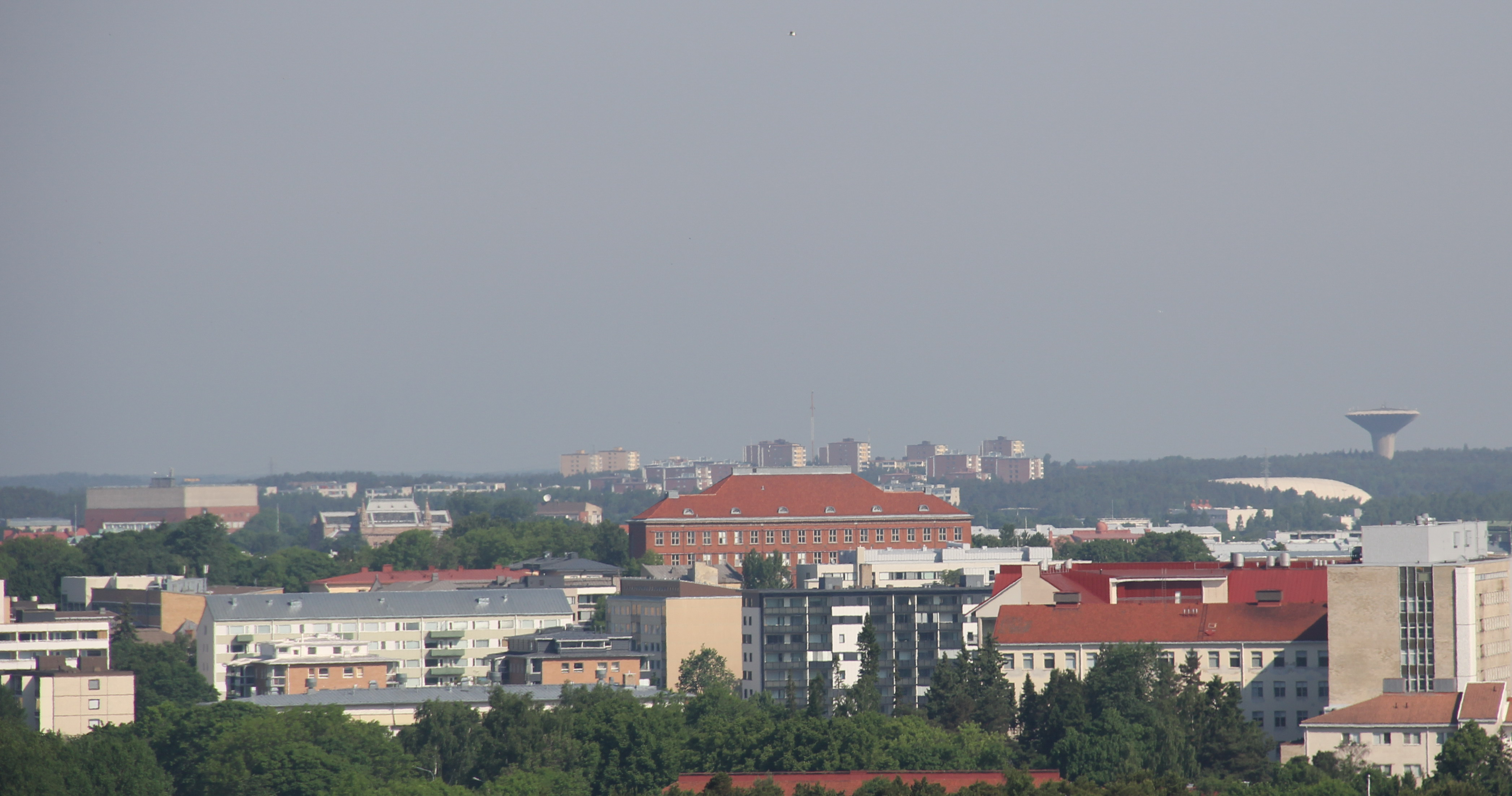 Turku seen from the Peltola landfill hill, Turku, Finland.